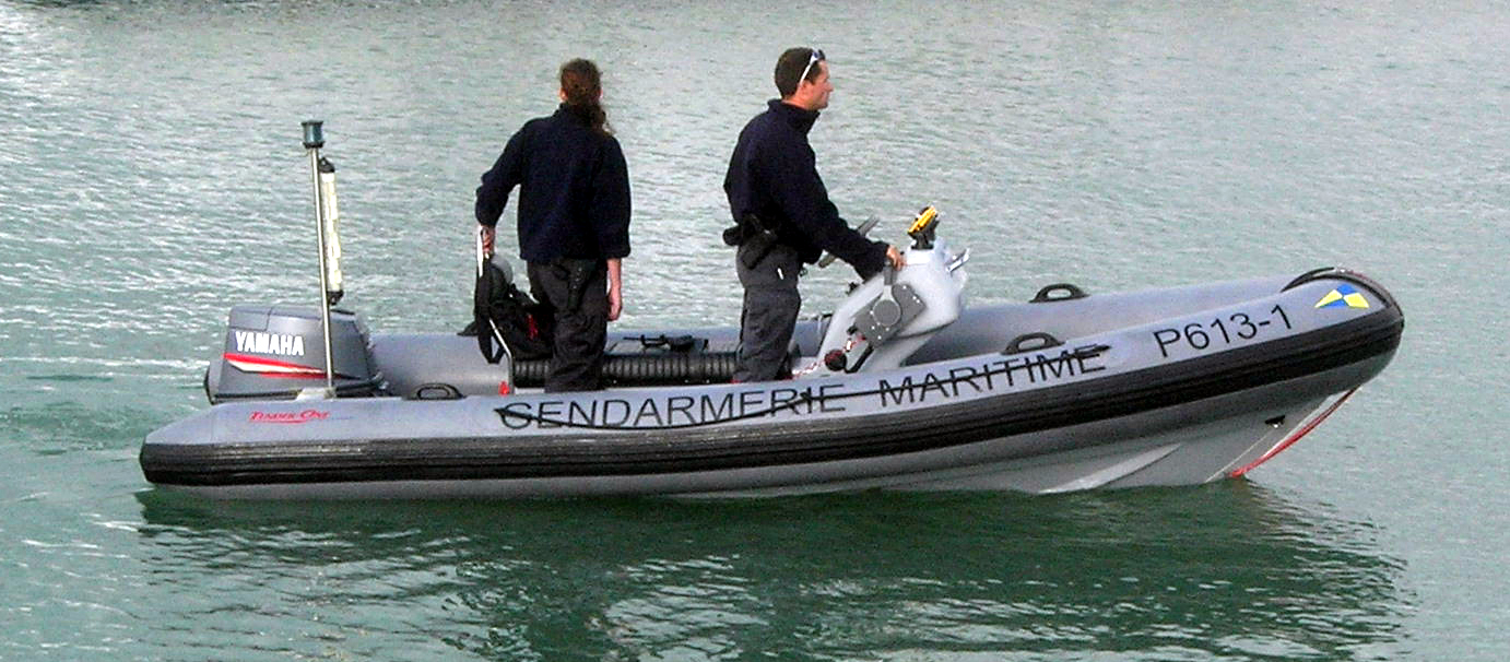 Description =Gendarmerie maritime Source =Photo taken by Remi Jouan Date =Septembre 2006 Author =Remi Jouan